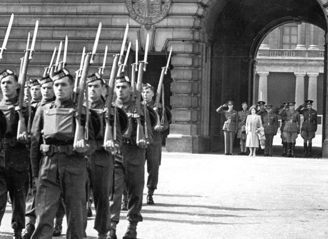 The The Toronto Scottish Regiment (Queen Elizabeth The Queen Mother's Own) mounting the Queen's Guard in London.